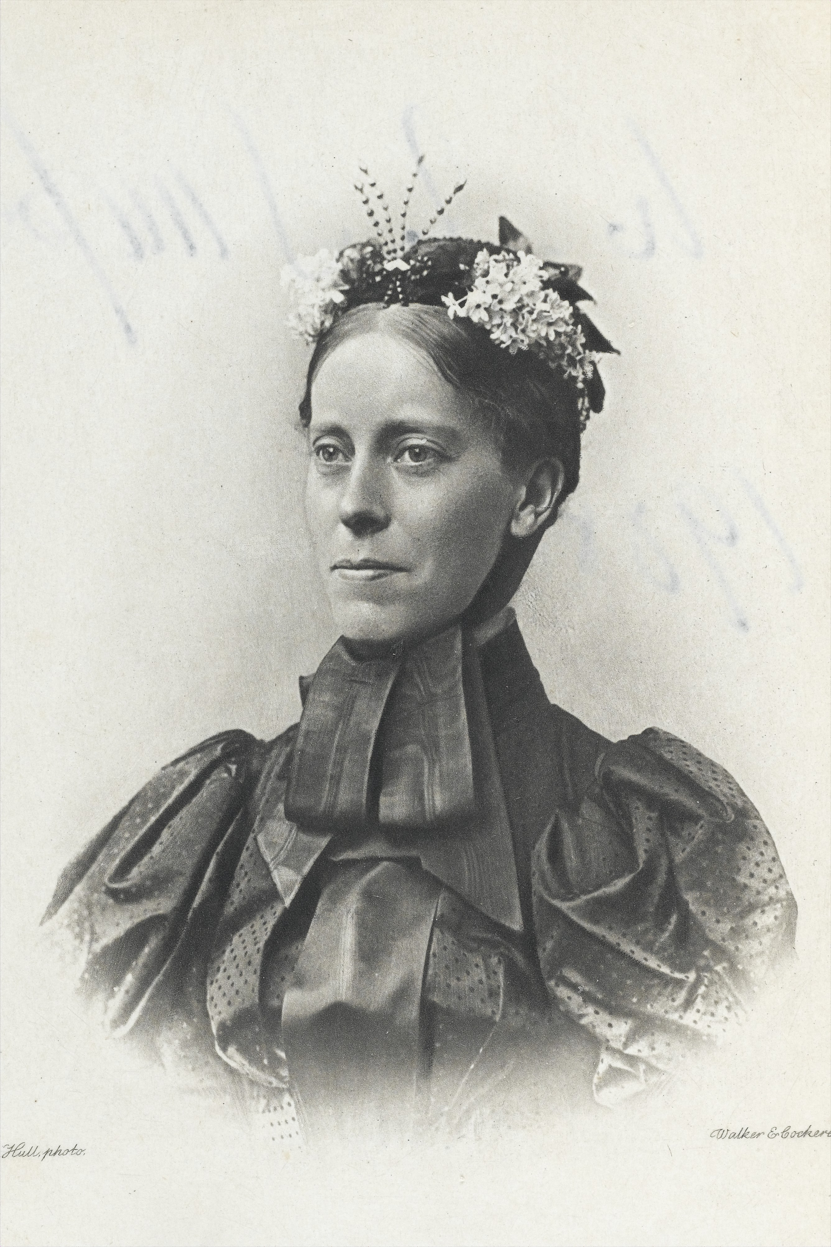 Portrait of Mary H Kingsley. General Collections Keywords: Ethnology